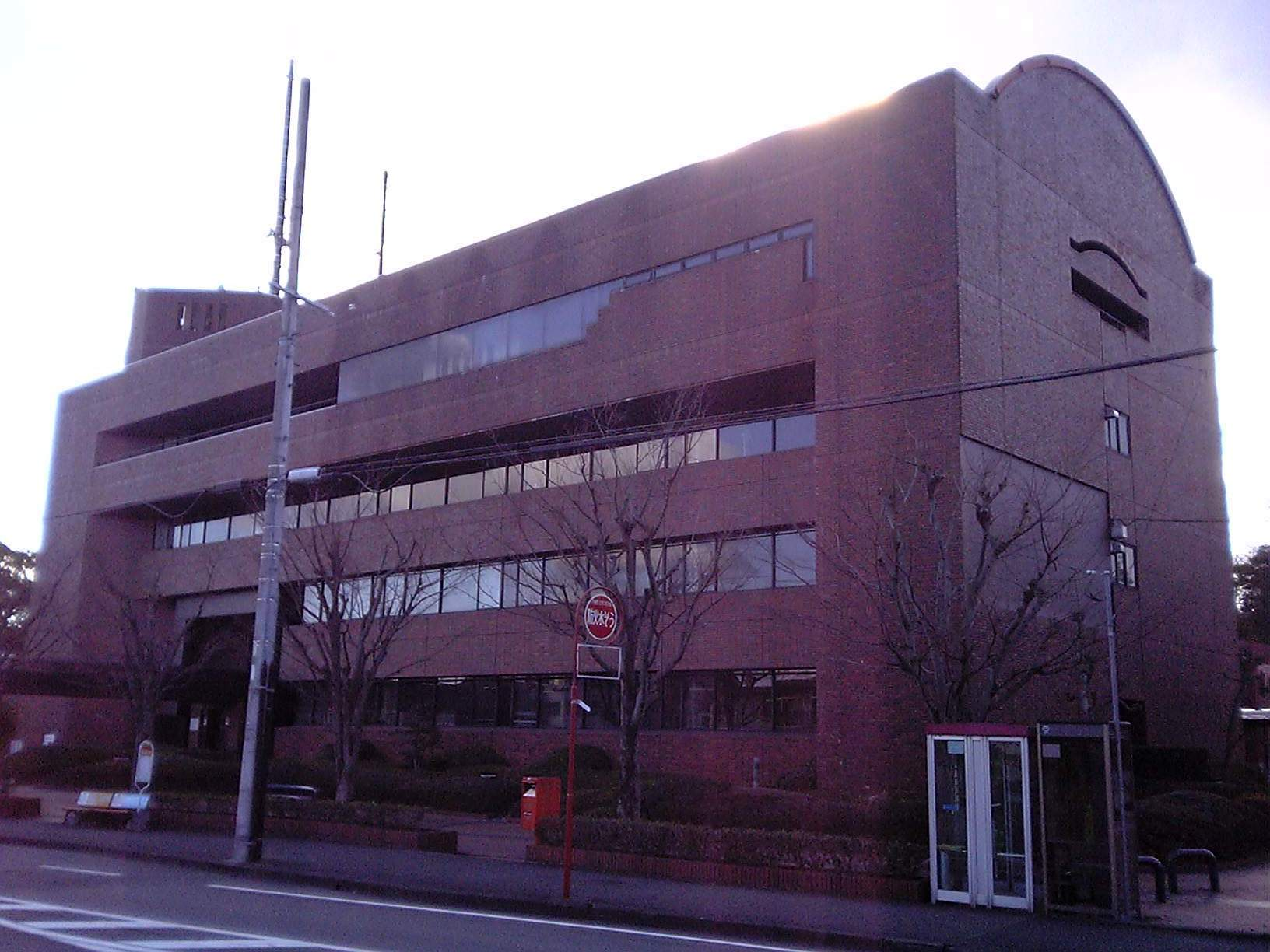 Kikugawa City Office